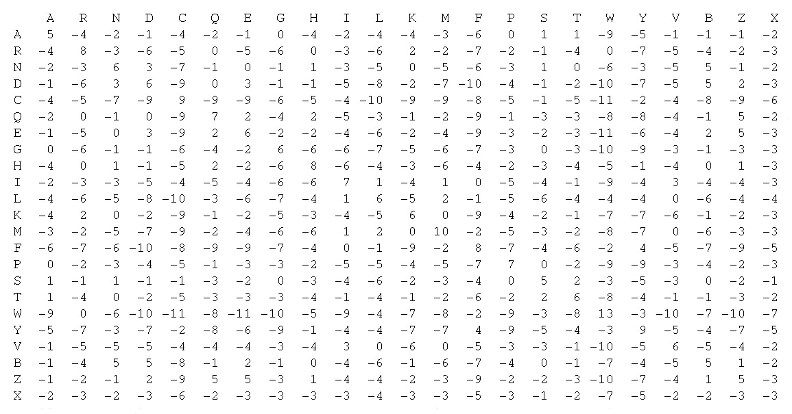 PAM70 matrix, data obtained from